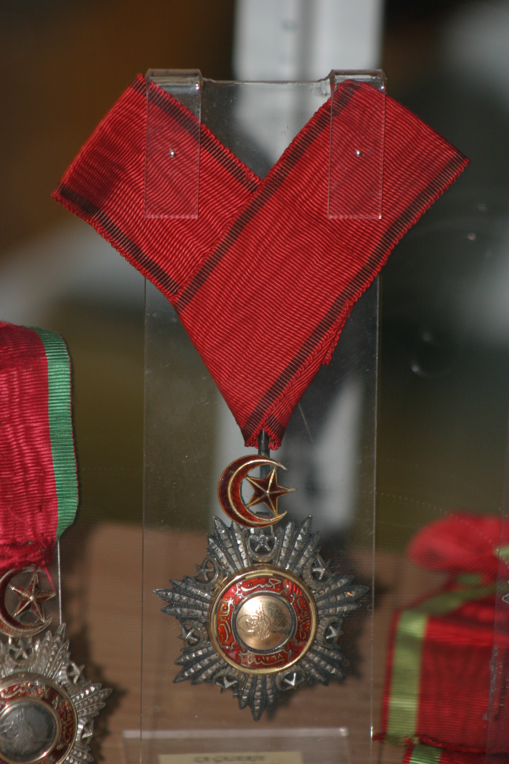 Work by Rama This Medjidie order was founded in 1851 and awarded to civilians and the military.